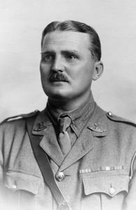 Photograph of John Sherwood-Kelly VC